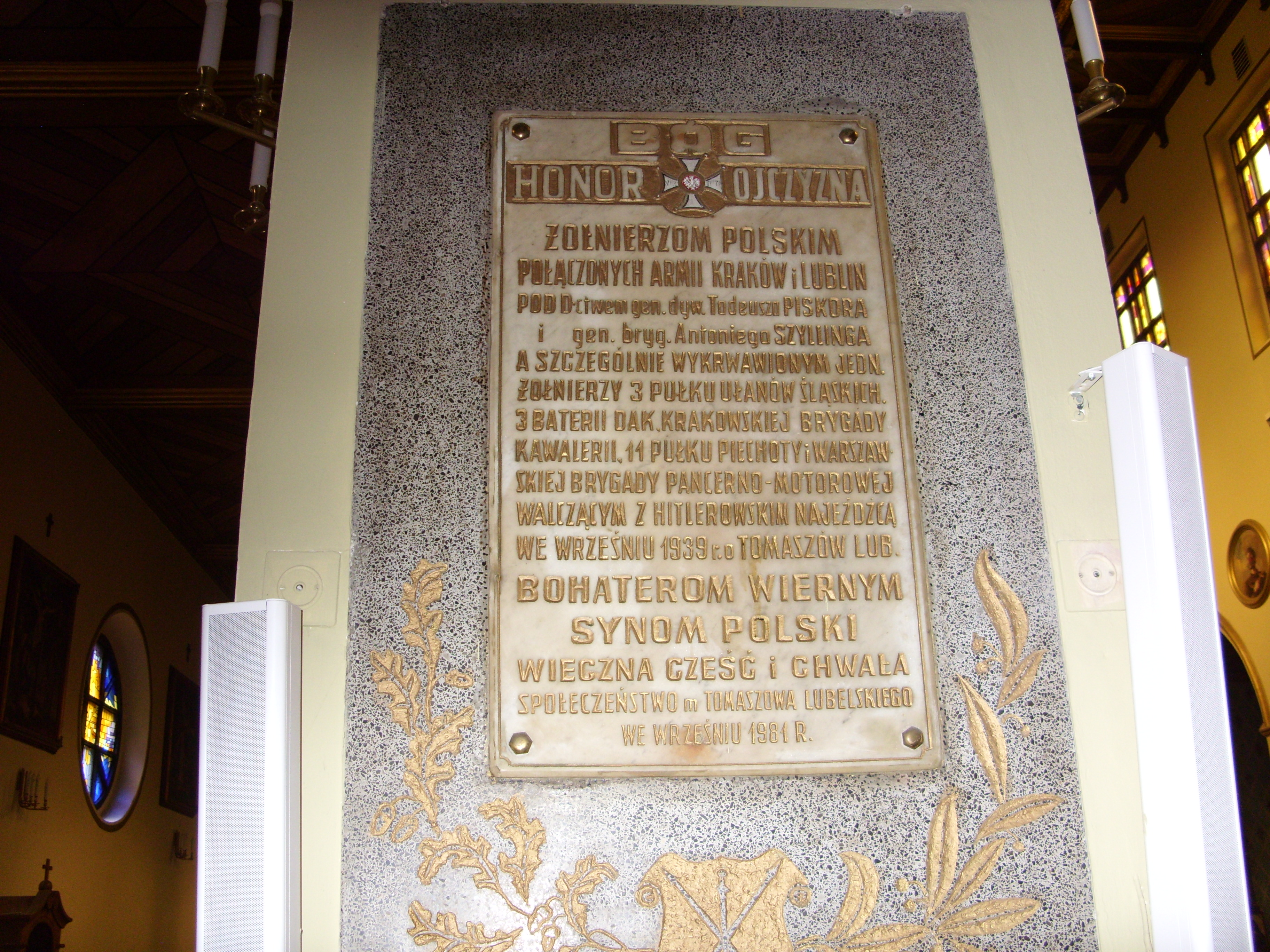 Memorial plaque to soldiers of the Krakow Army and the Lublin Army in the battle of Tomaszów Lubelski in 1939 during the Polish Defense War against Nazi Germany. Tomaszów Lubelski, Poland.